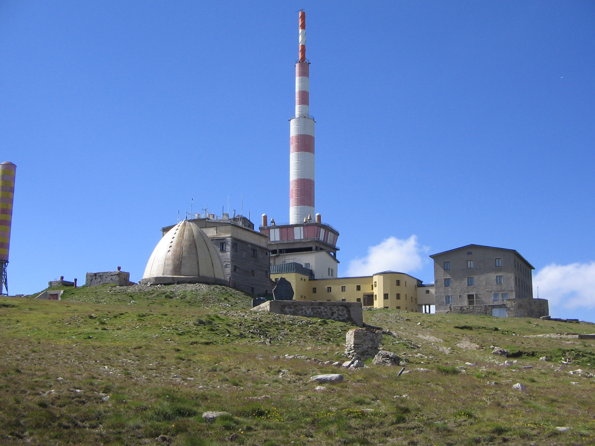 Peak Botev, Stara planina mountain, Bulgaria